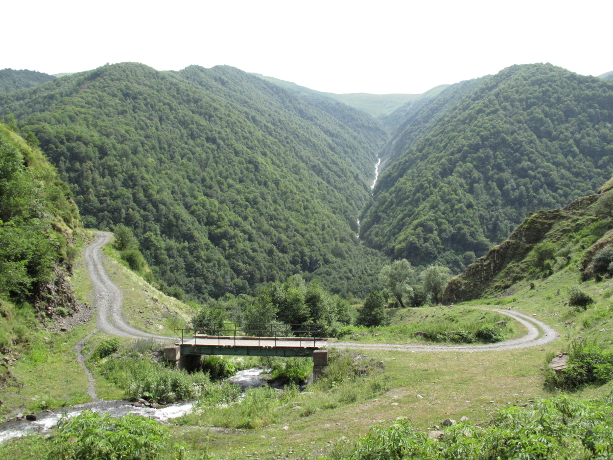 View of the main road along the Pshavis Aragvi Valley in Georgia and the Tsikhetgora Bridge